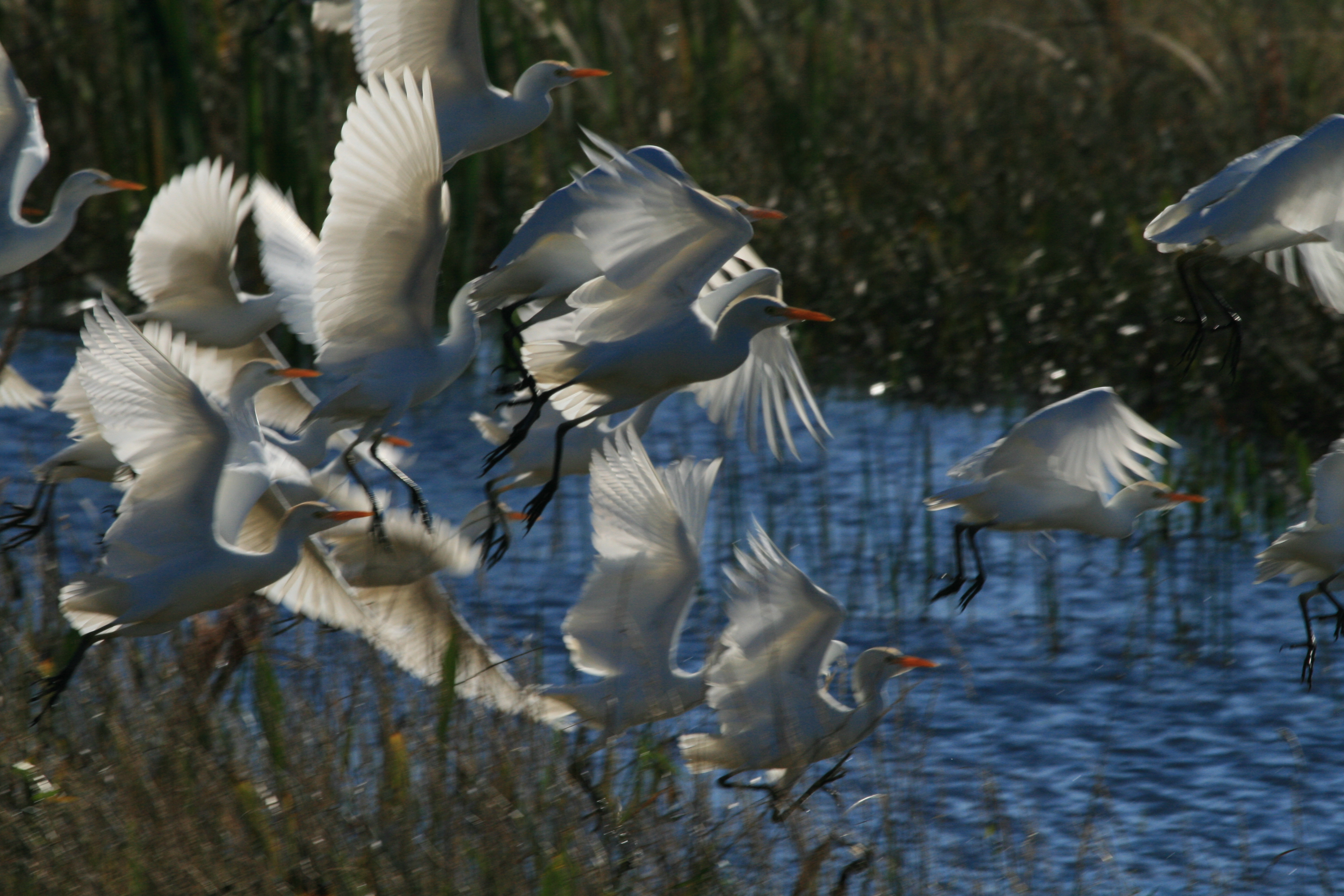 Cattle Egrets in flight in Loxahatchee National Wildlife Refuge, Florida.